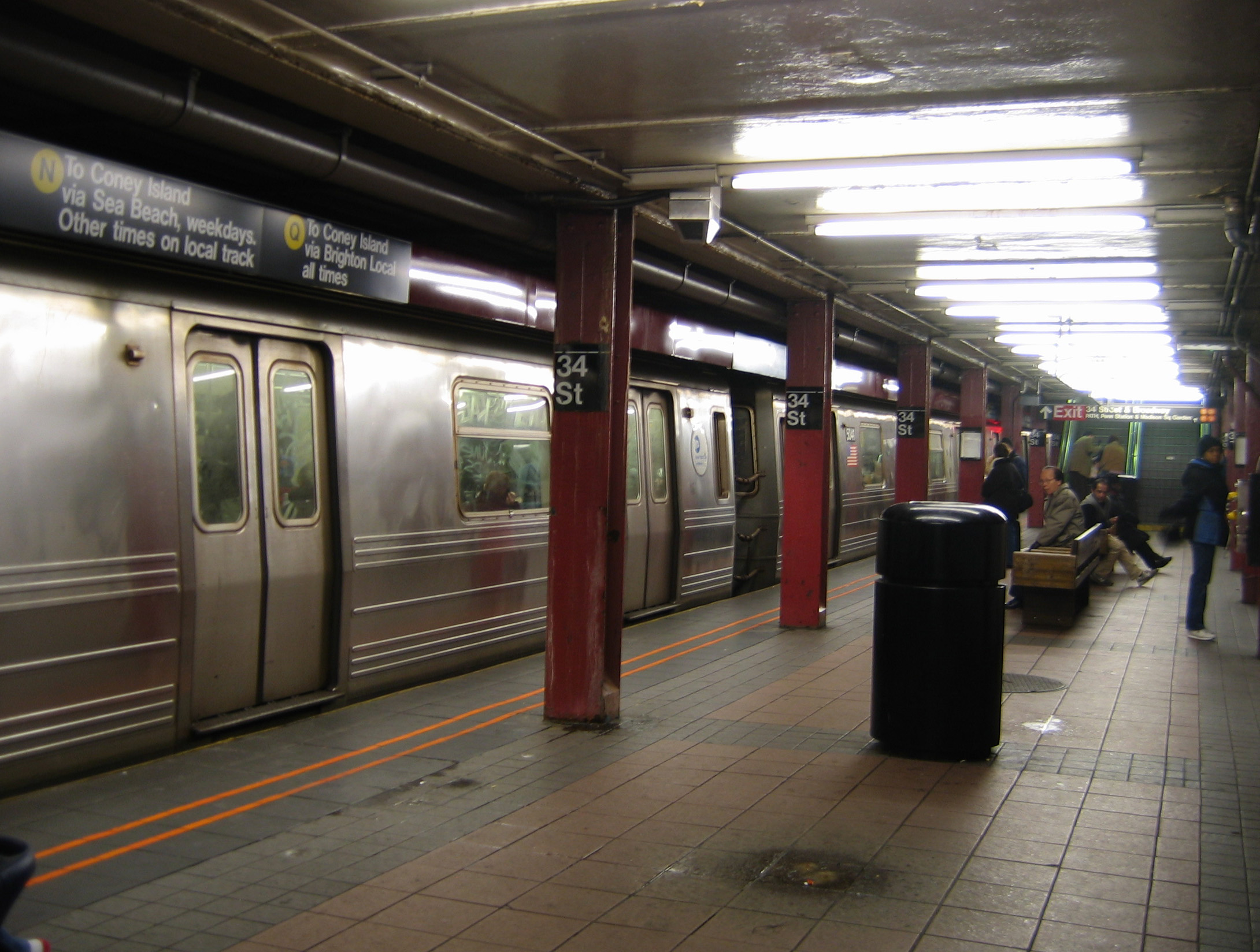 34th Street-Herald Square (BMT Broadway Line) station - New York City Subway.